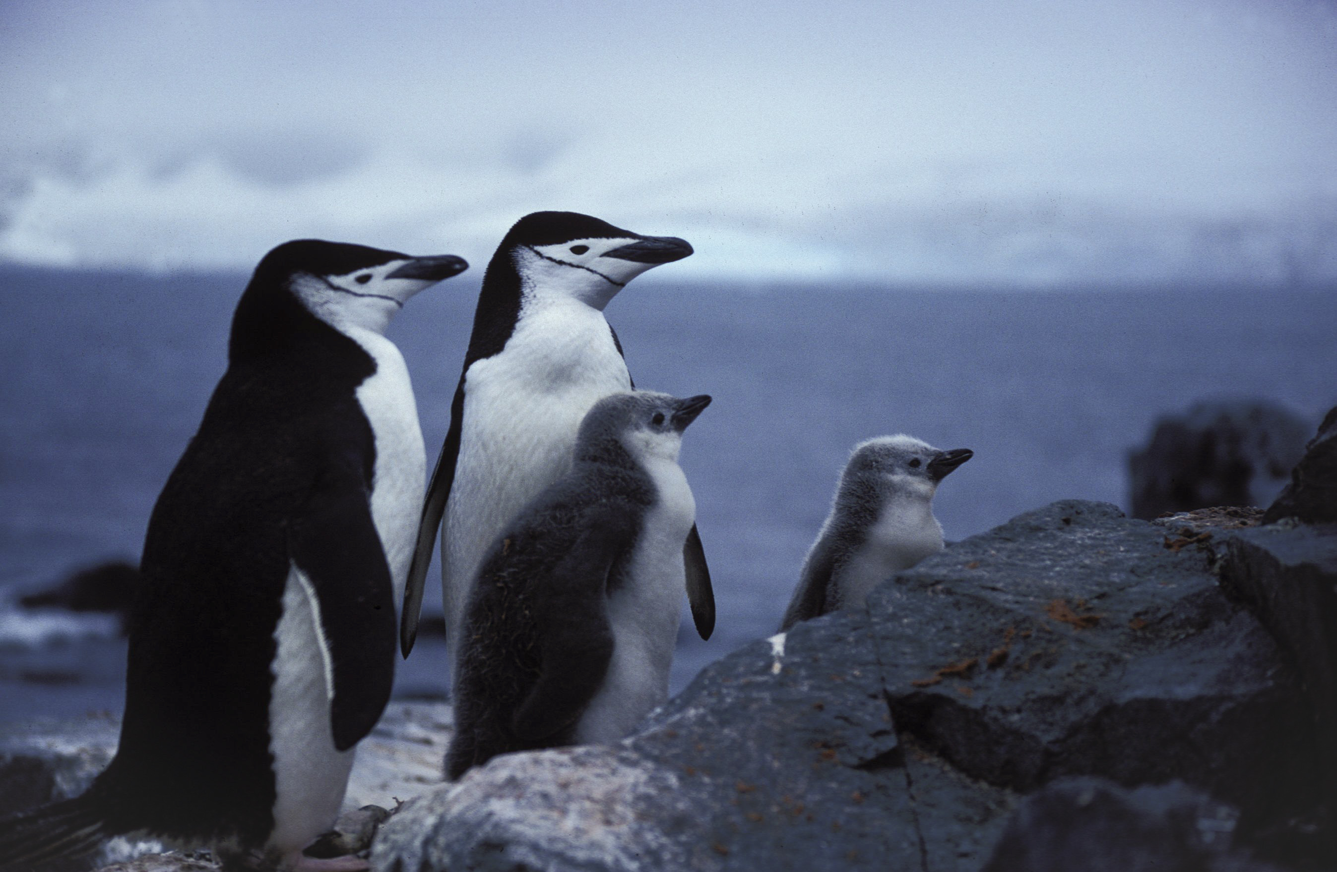 Chinstrap Penguin, Antarctic Peninsula